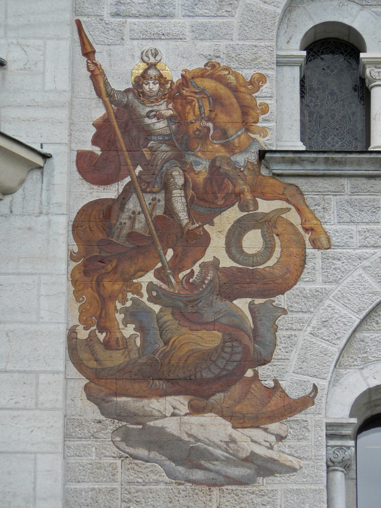 Neuschwanstein's Castle. Mural painting of Saint George